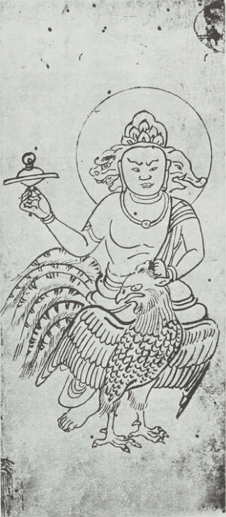 Nārāyaṇa (那羅延天 Naraen-ten), the Buddhist version of Vishnu, from the Besson-zakki (別尊雑記 "Miscellaneous Record of Classified Sacred Images"), as reproduced in the Taishō Shinshū Daizōkyō Zuzō-bu (大正新脩大藏經 圖像部), vol. 3.